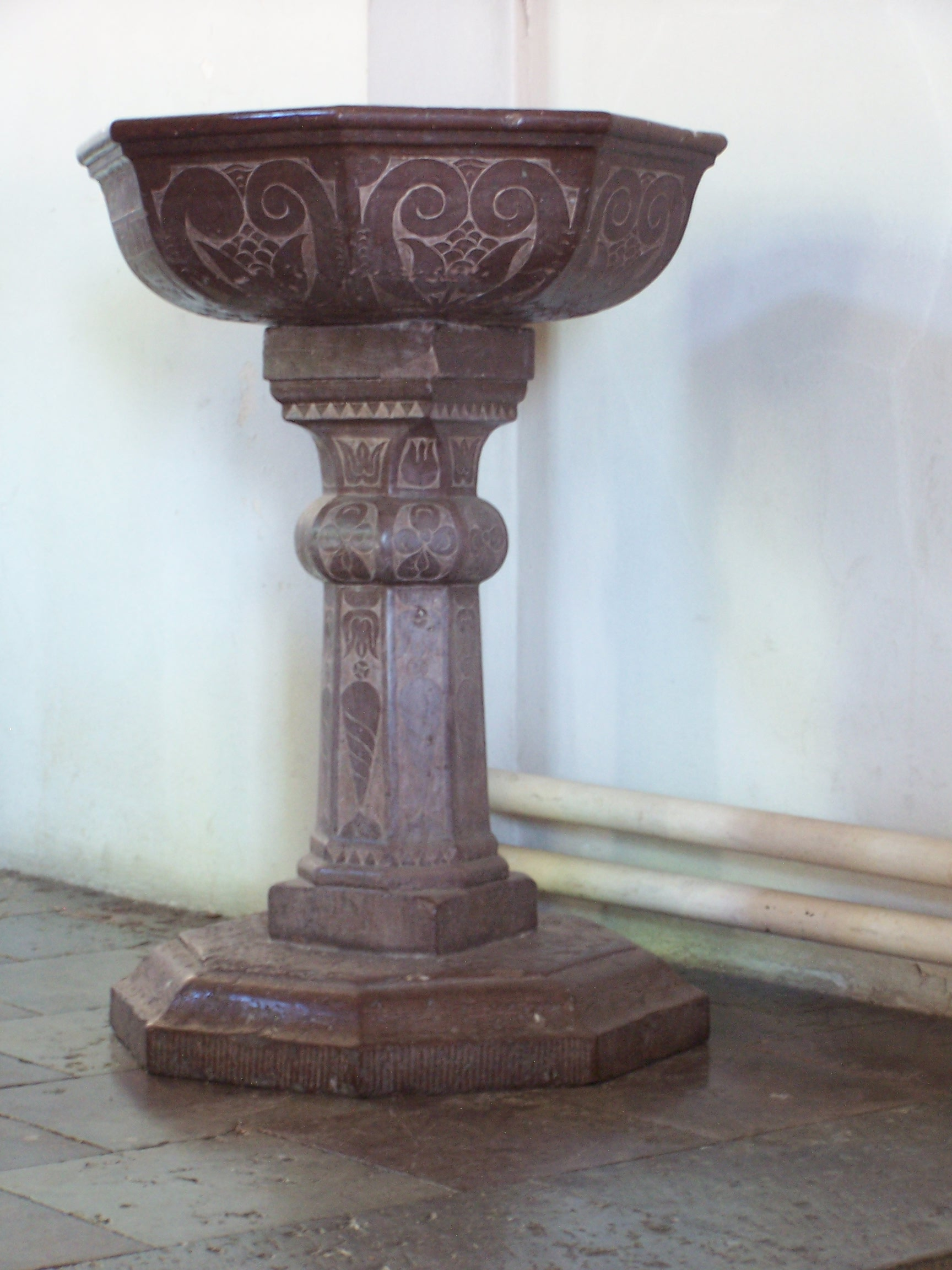 Trefaldighetskyrkan (Trinity church) in Karlskrona - Baptismal font